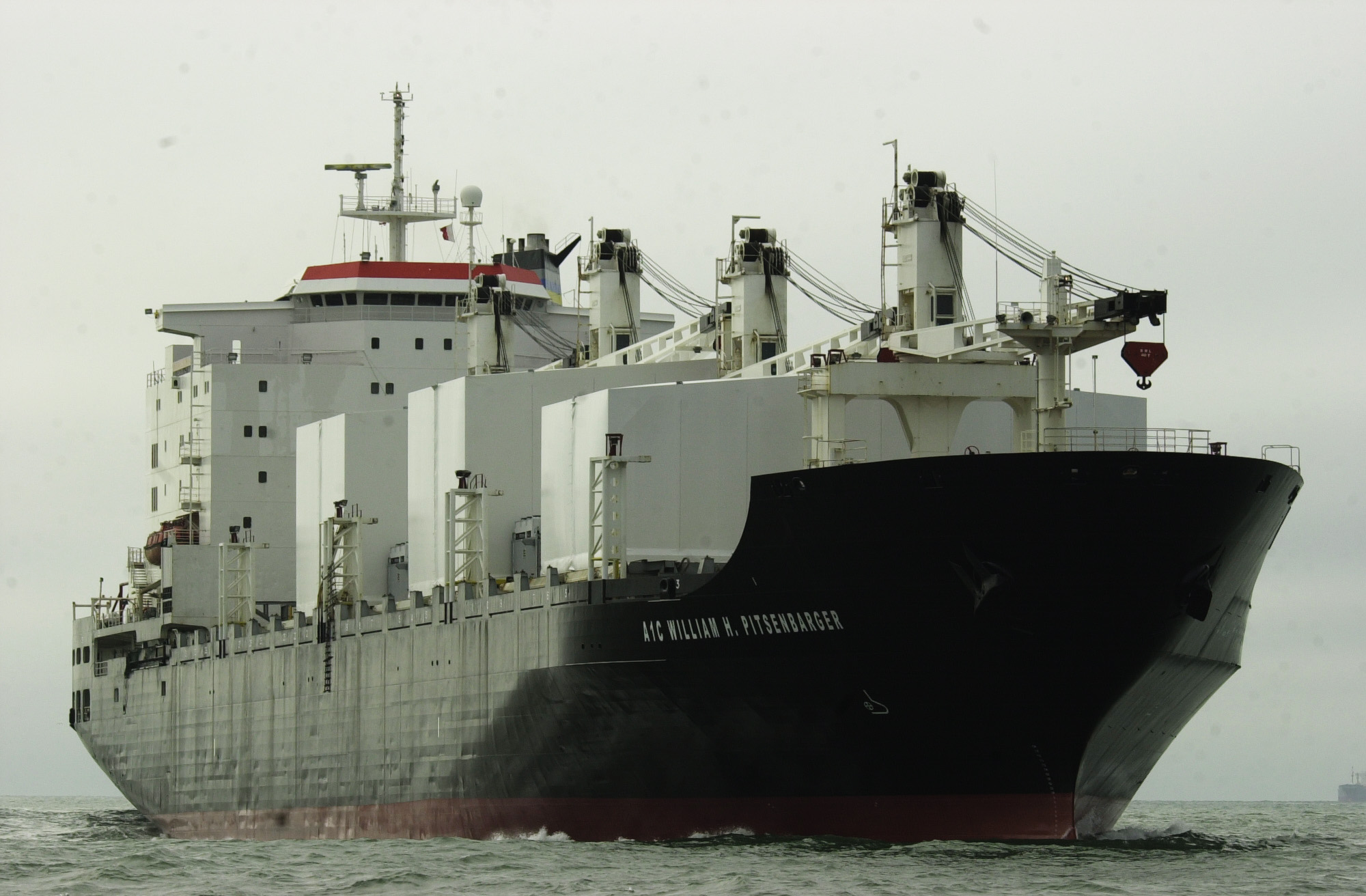 MV A1C William H Pitsenbarger is one of Military Sealift Command's seven Container Ships and is part of the 36 ships in the Propositioning Program. (U.S. Navy photo).